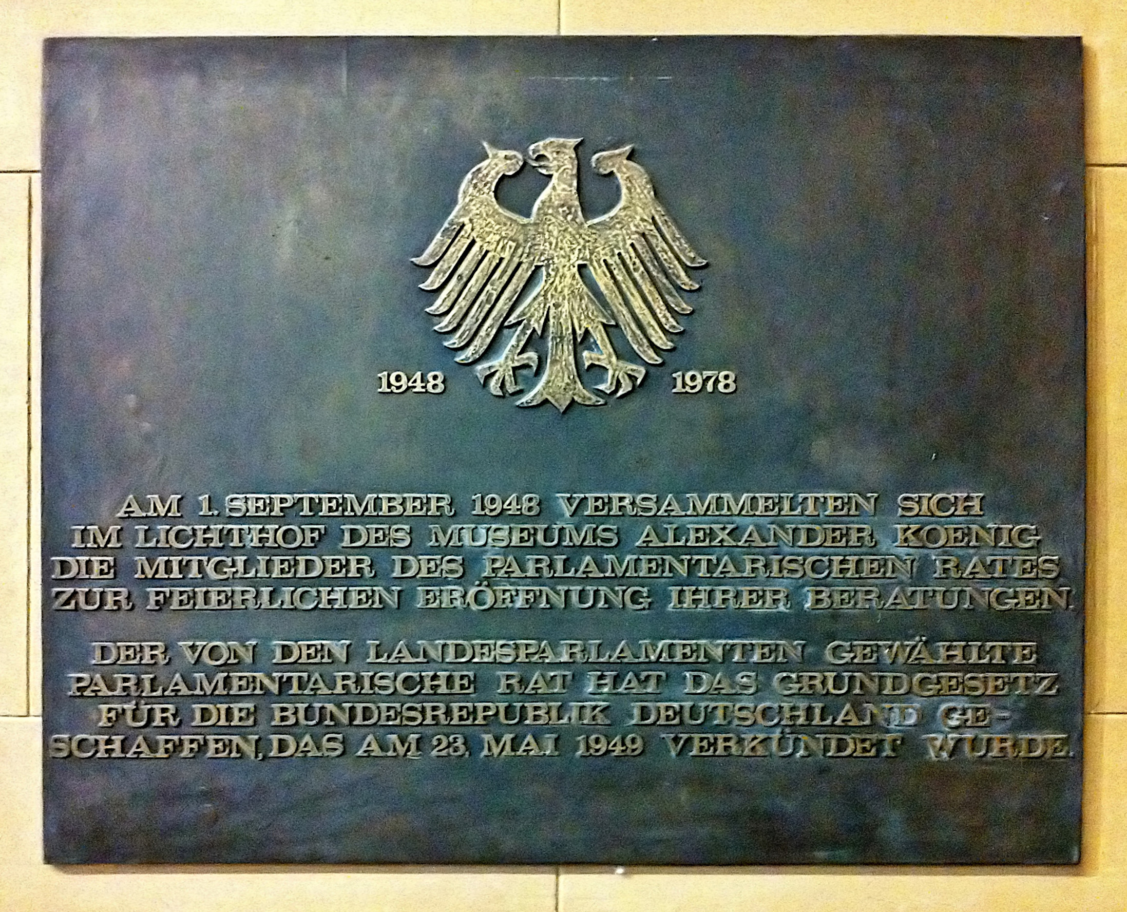 Germany, Bonn: Museum Koenig, Plaque Parlamentarischer Rat (Parliamentary Council).